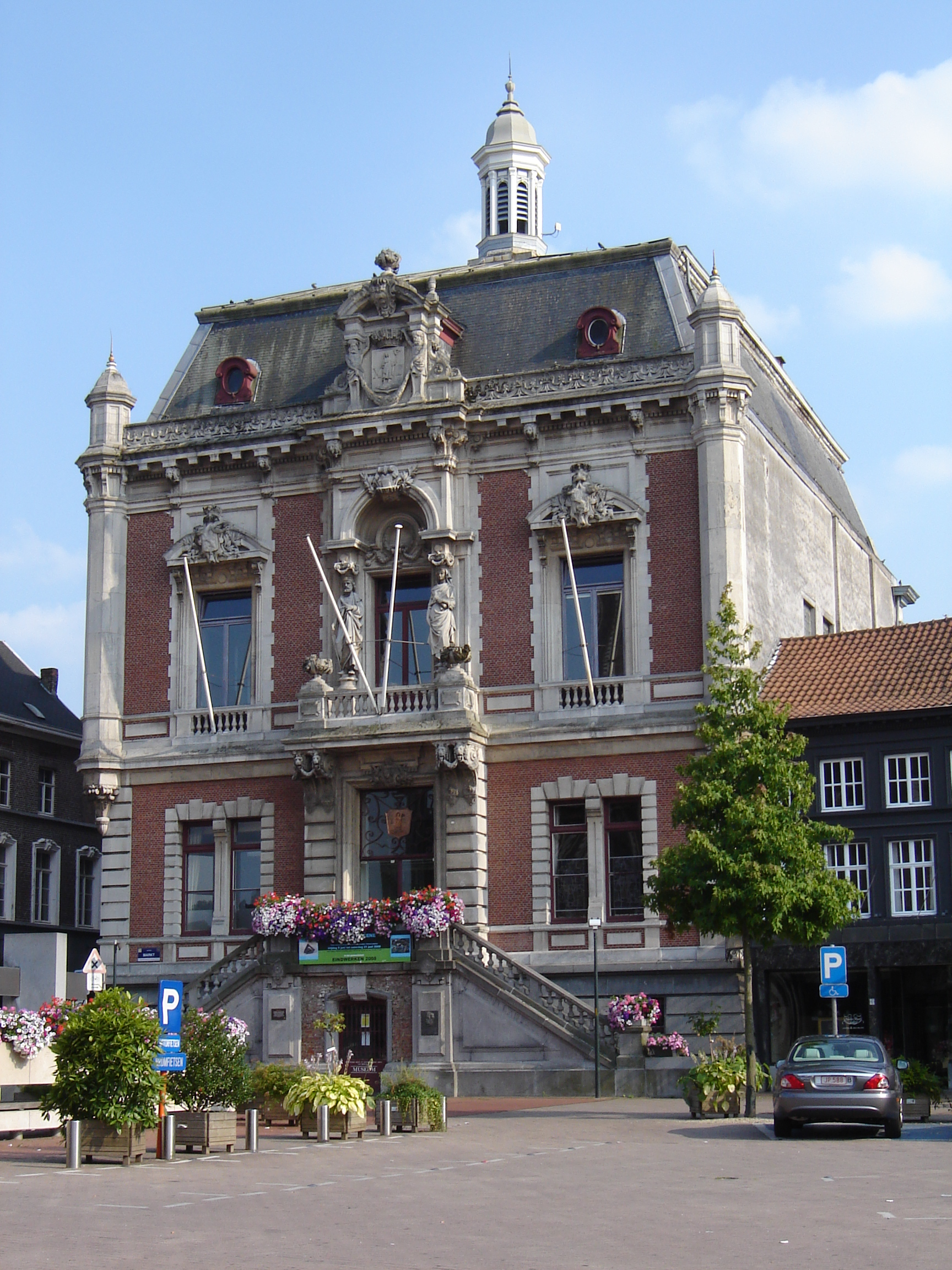 Former Town hall of Wetteren. Wetteren, East Flanders, Belgium